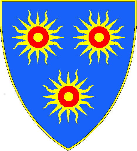 3 suns - the arms of Edmund Rich